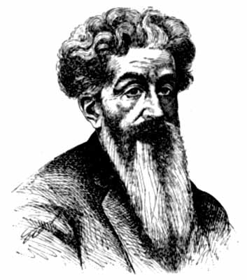 Ramon Emeterio Betances, Puerto Rican rebel at Grito de Lares. Image obtained from the Library of Congress